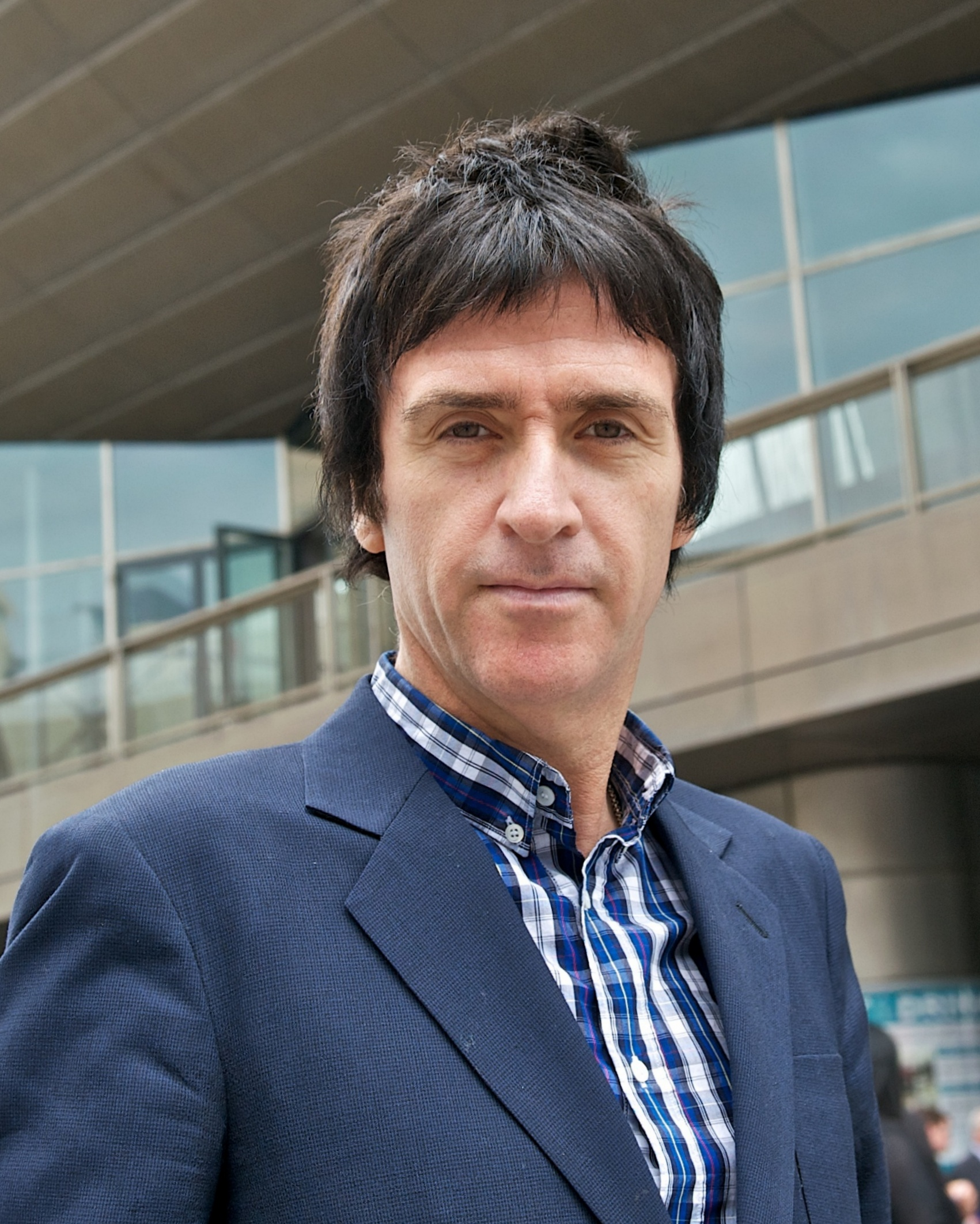 Legendary Smiths guitarist Johnny Marr’s outstanding achievements in a music career spanning four decades were recognised yesterday (Thursday 19 July) with the granting of an honorary degree by the University of Salford. The influential guitarist and songwriter, whose distinctive sound has been credited with changing the face of British guitar music and inspiring a generation of indie bands across the world, received a doctorate of arts at The Lowry in Salford Quays at a University graduation ceremony.